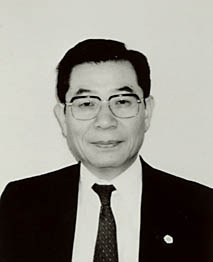 Osamu Tsuno, inaugurated as Japanese Director-General of the Cabinet Legislation Bureau in August 1999